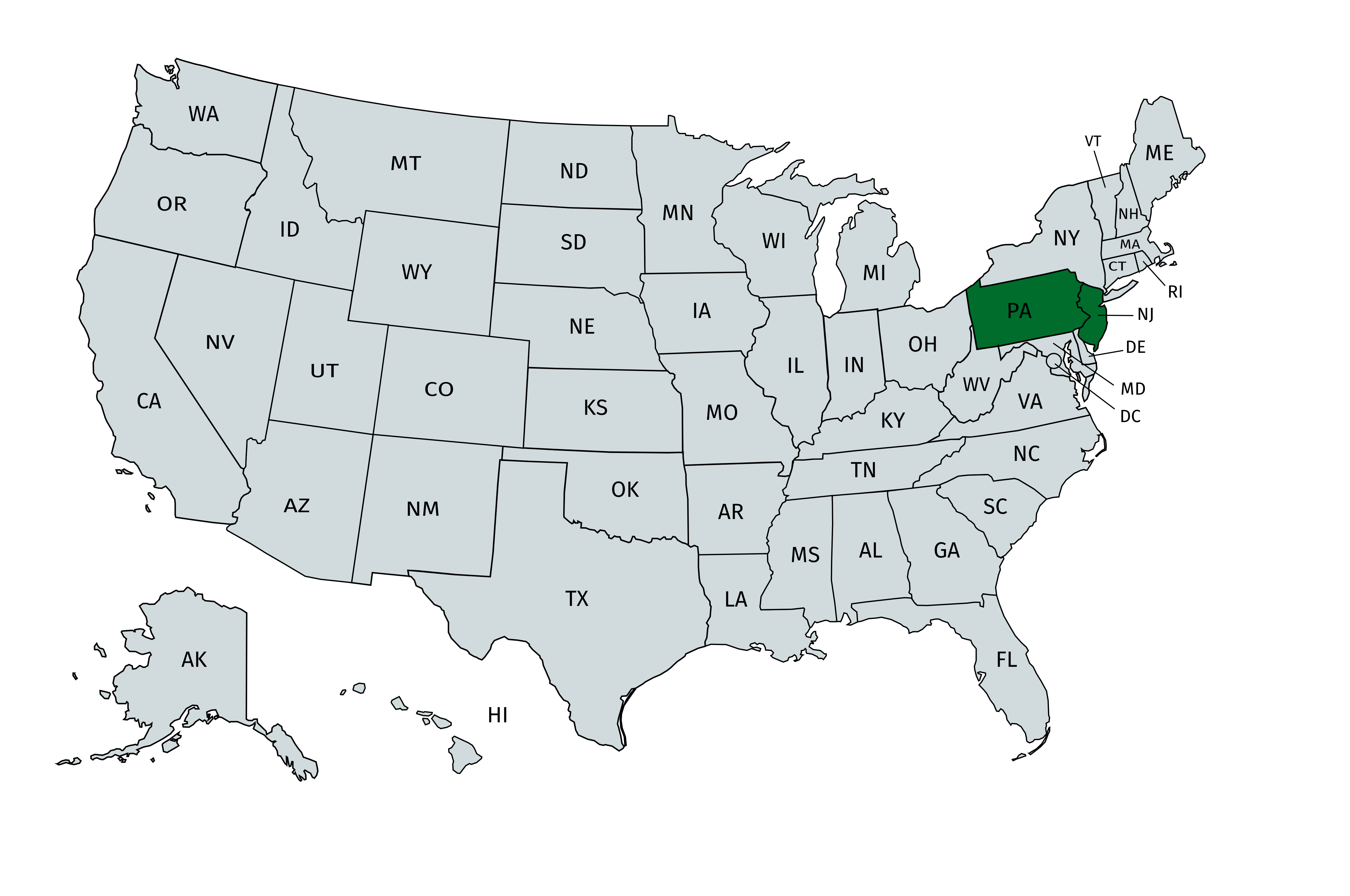 Map showing states represented at the 1947 Little League World Series, which was held from August 21 to August 23 in Williamsport, Pennsylvania.